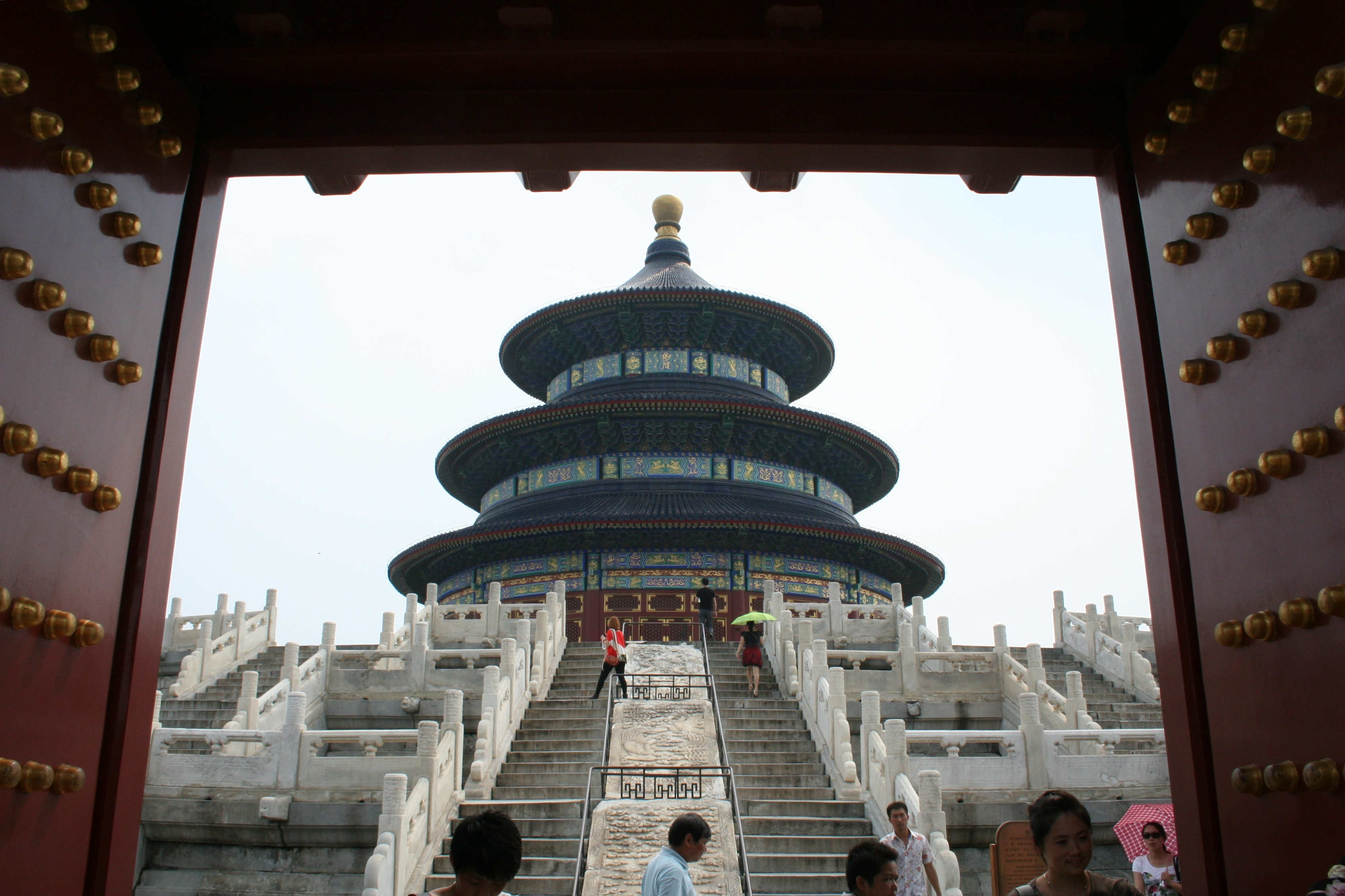 Temple of Heaven, Beijing